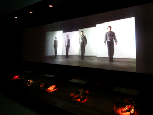 sala museo